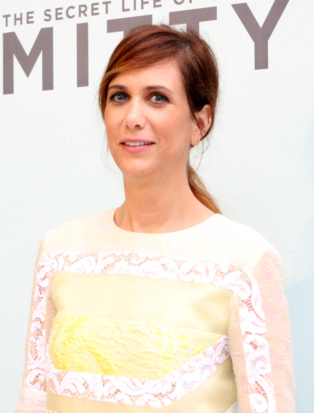 The Secret Life Of Walter Mitty Premiere in Sydney, Australia